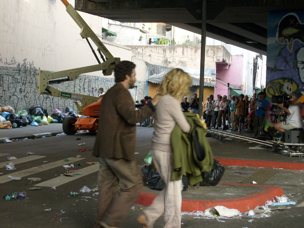 The filming of the Blindness in São Paulo, Brazil with Mark Ruffalo and Julianne Moore.